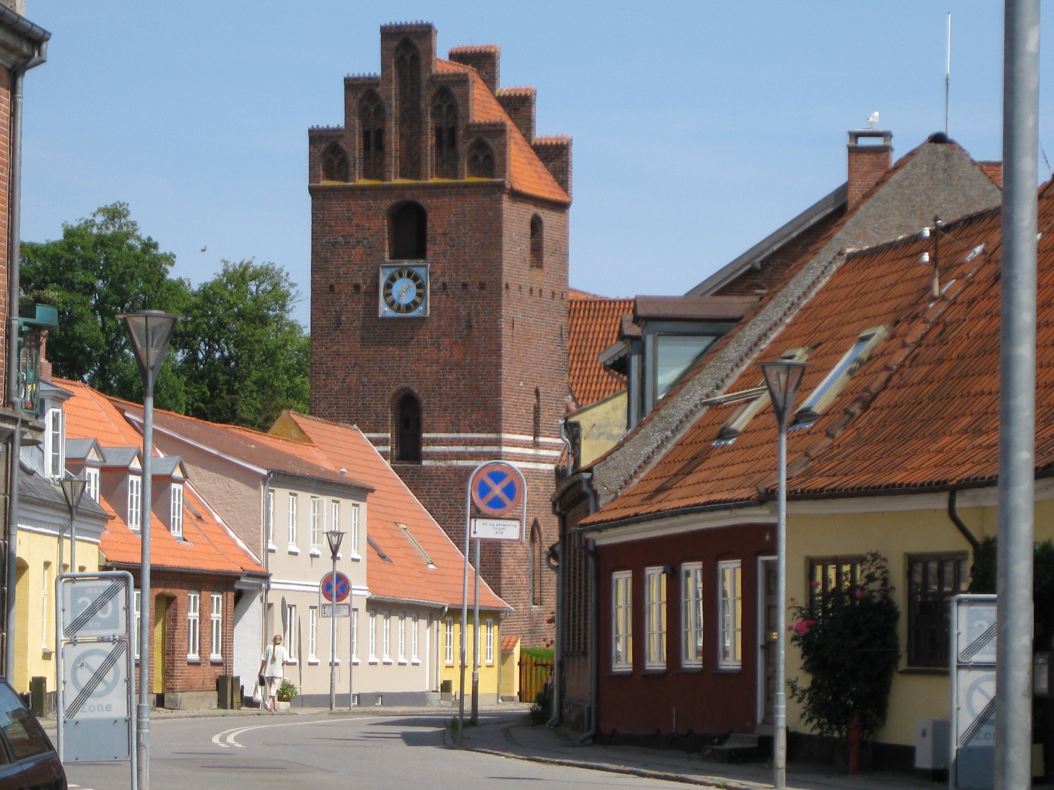 View (from west) at the church "Præstø Kirke" in the small town "Præstø". The town is located on South Zealand in east Denmark.